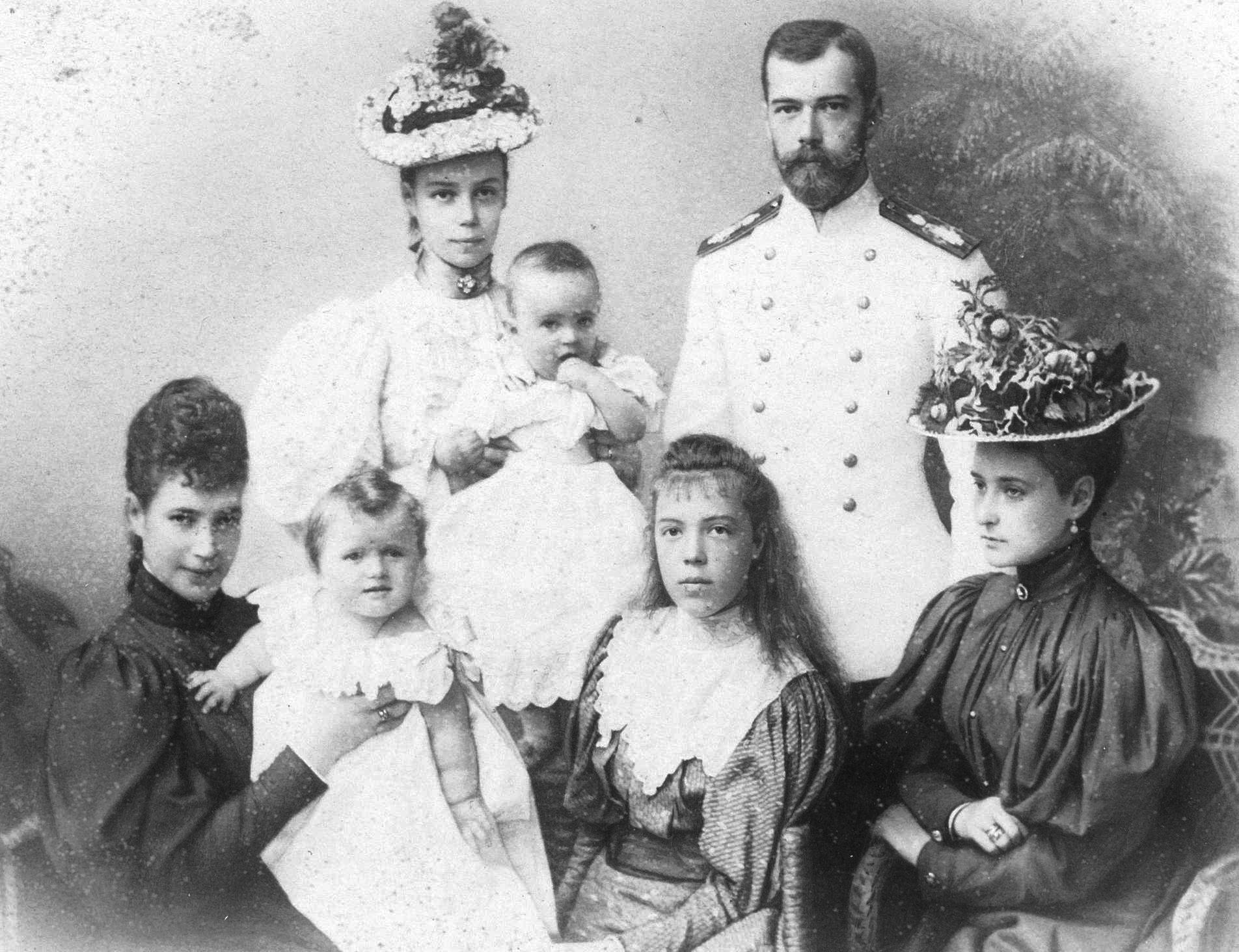 Maria Feodorovna (Dagmar of Denmark), Dowager Empress of Russia, Grand Duchess Olga Nicholaievna, Grand Duchess Olga Alexandrovna, Tsarina Alexandra Feodorovna (Alice of Hesse-Darmstadt), Grand Duchess Xenia Alexandrovna, Princess Irina Alexandrovna and Tsar Nicholas II.